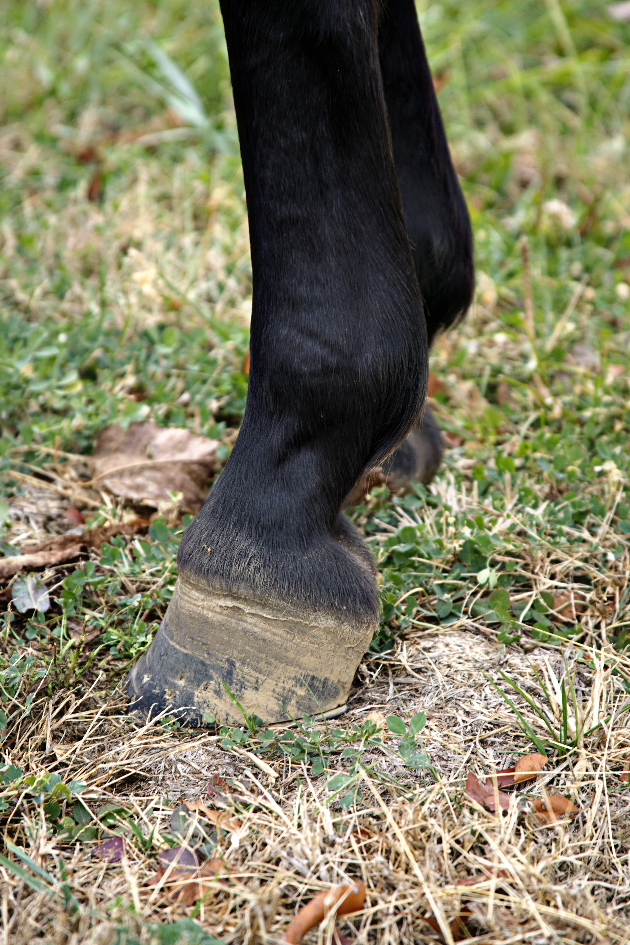 High heeled conformation flaw - in a five year old half-Arabian, half-Quarter Horse mare. This was not a congenital defect, as the mare developed this as a weanling during dry conditions when her hooves were not kept in proper trim.